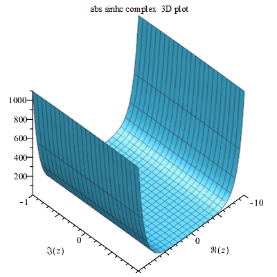 Sinhc abs complex 3D plot